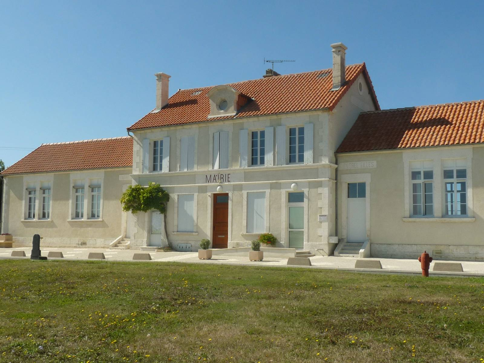 town hall of Berneuil, Charente, SW France